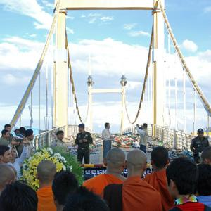 Buddhist monks chant prayers for the dead at bridge where less than 24 hours earlier more than 370 people died in a stampede.